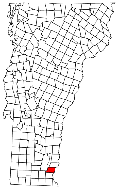 Description: Map of Vermont towns with Dummerston highlighted Source: Map created by Jared C. Benedict on 26 March 2004. Copyright: © Jared C. Benedict.